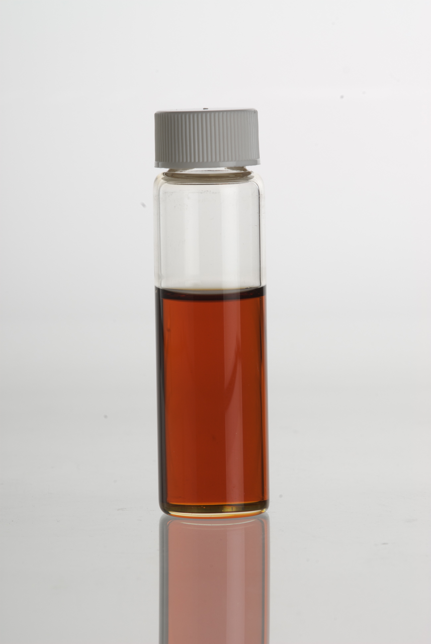 Valerian (Valeriana officinalis) Essential Oil in clear glass vial